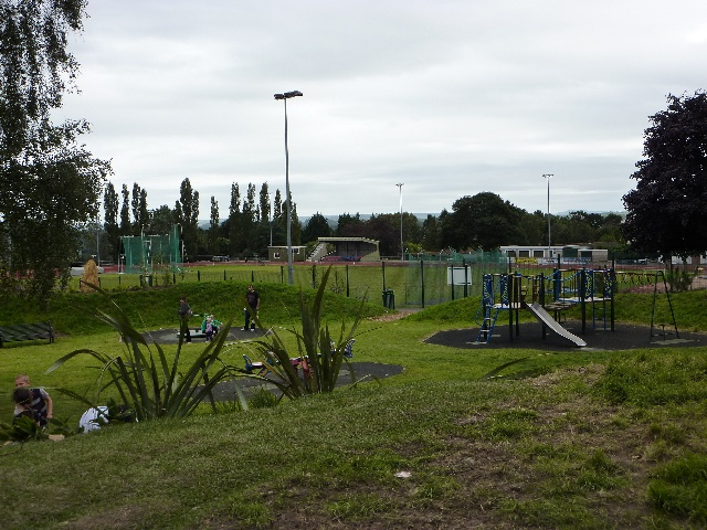 Playgound - Mudford Road Sports Ground With the athletics track in the background.